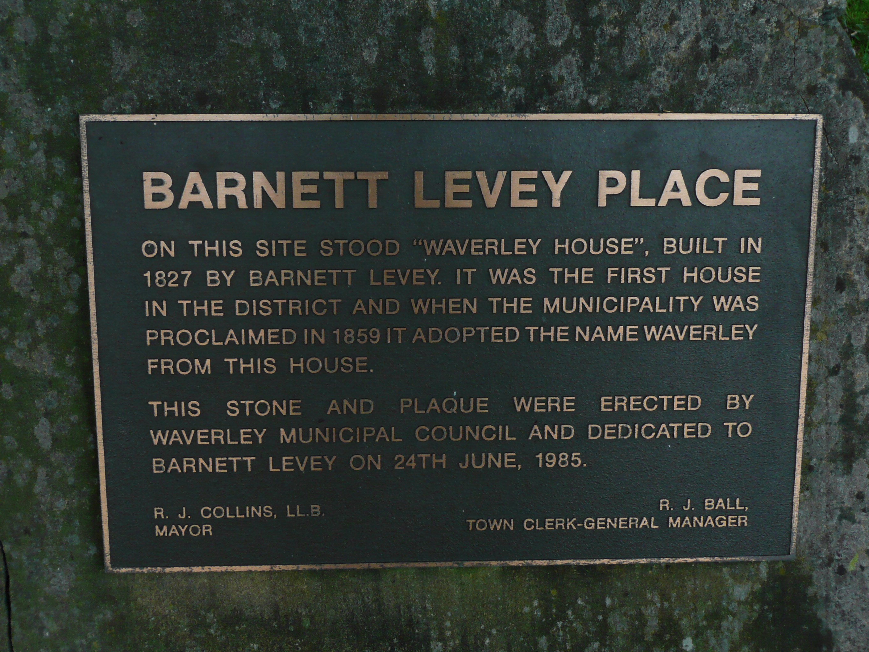 plaque, sydney